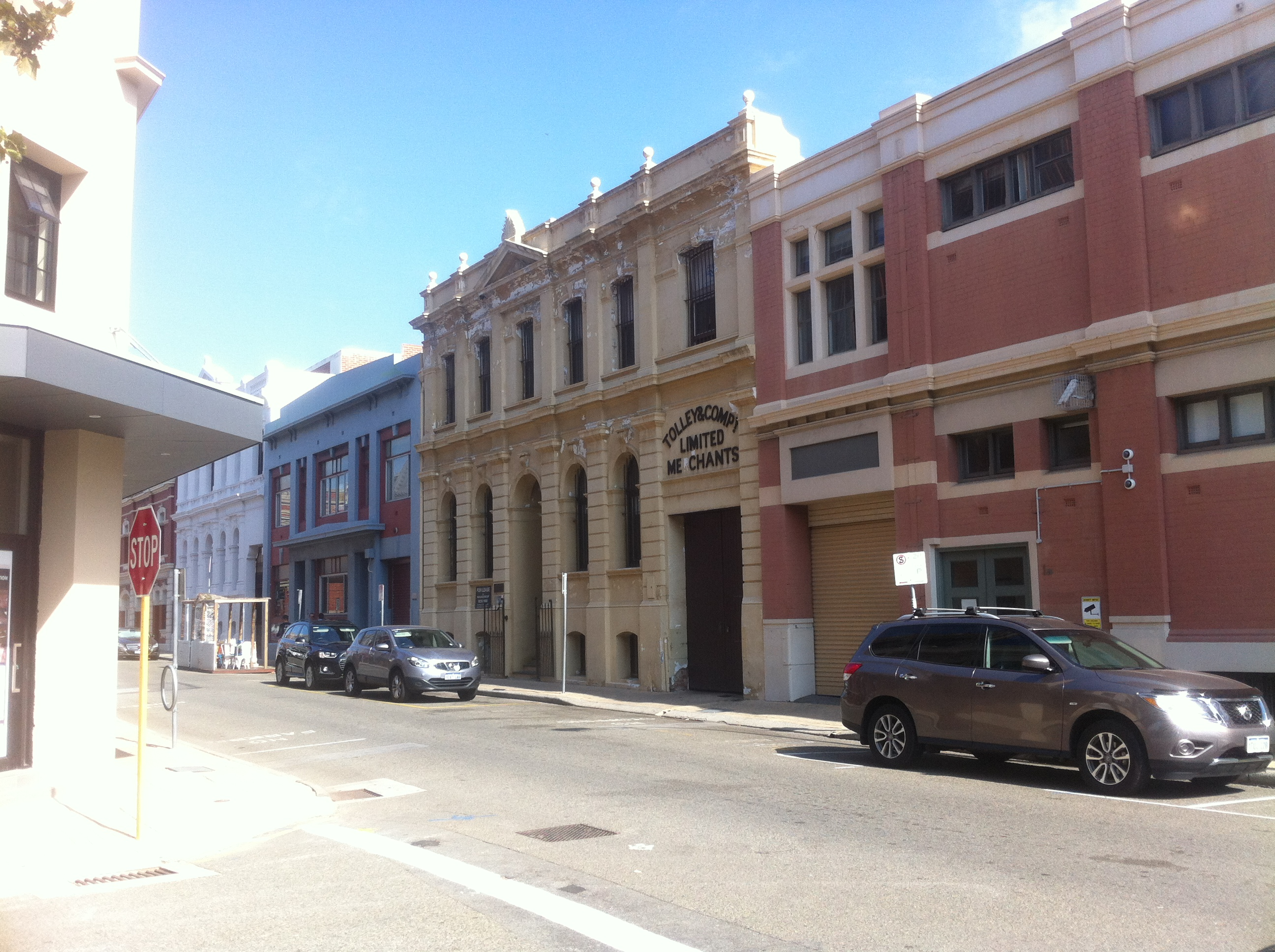 Tolley & Company Warehouse 2017